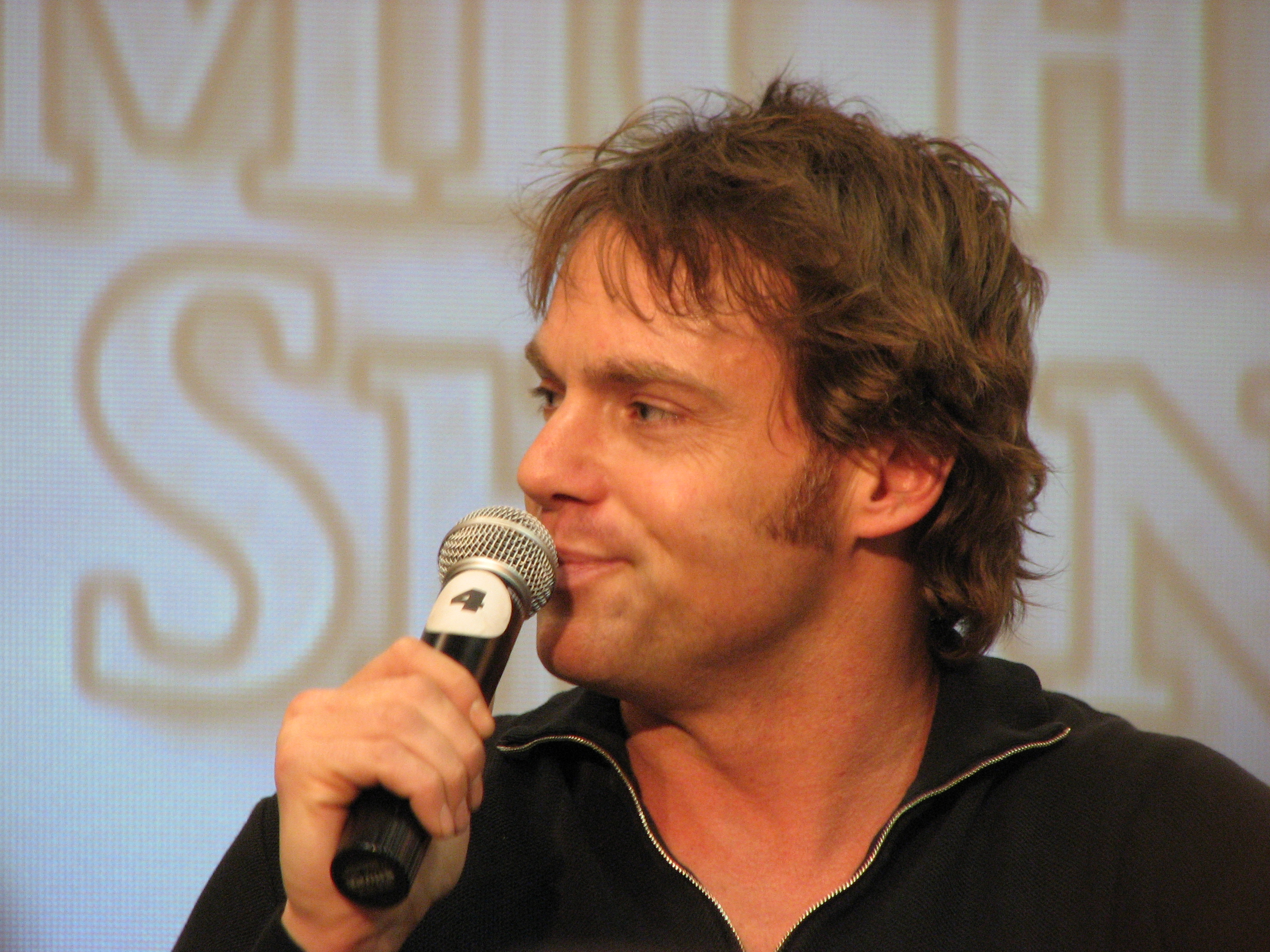 Michael Shanks at the Creation Official Stargate Convention 2007